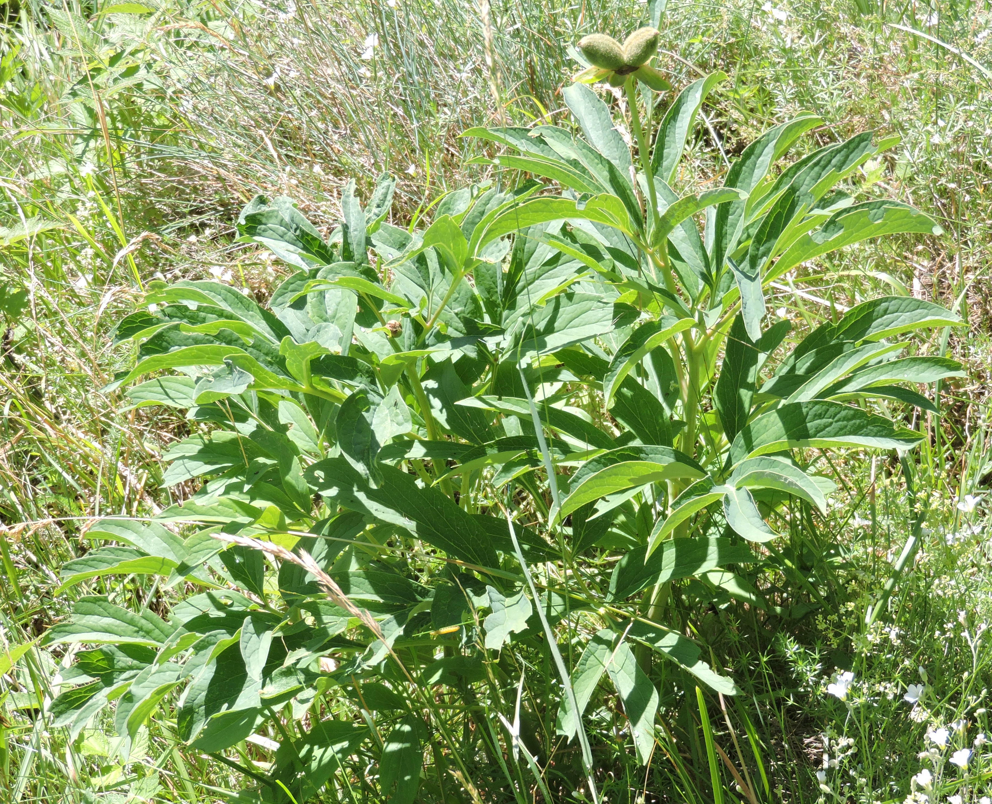 Col de Fenêtre (AO, Italy): Paeonia officinalis with fruits